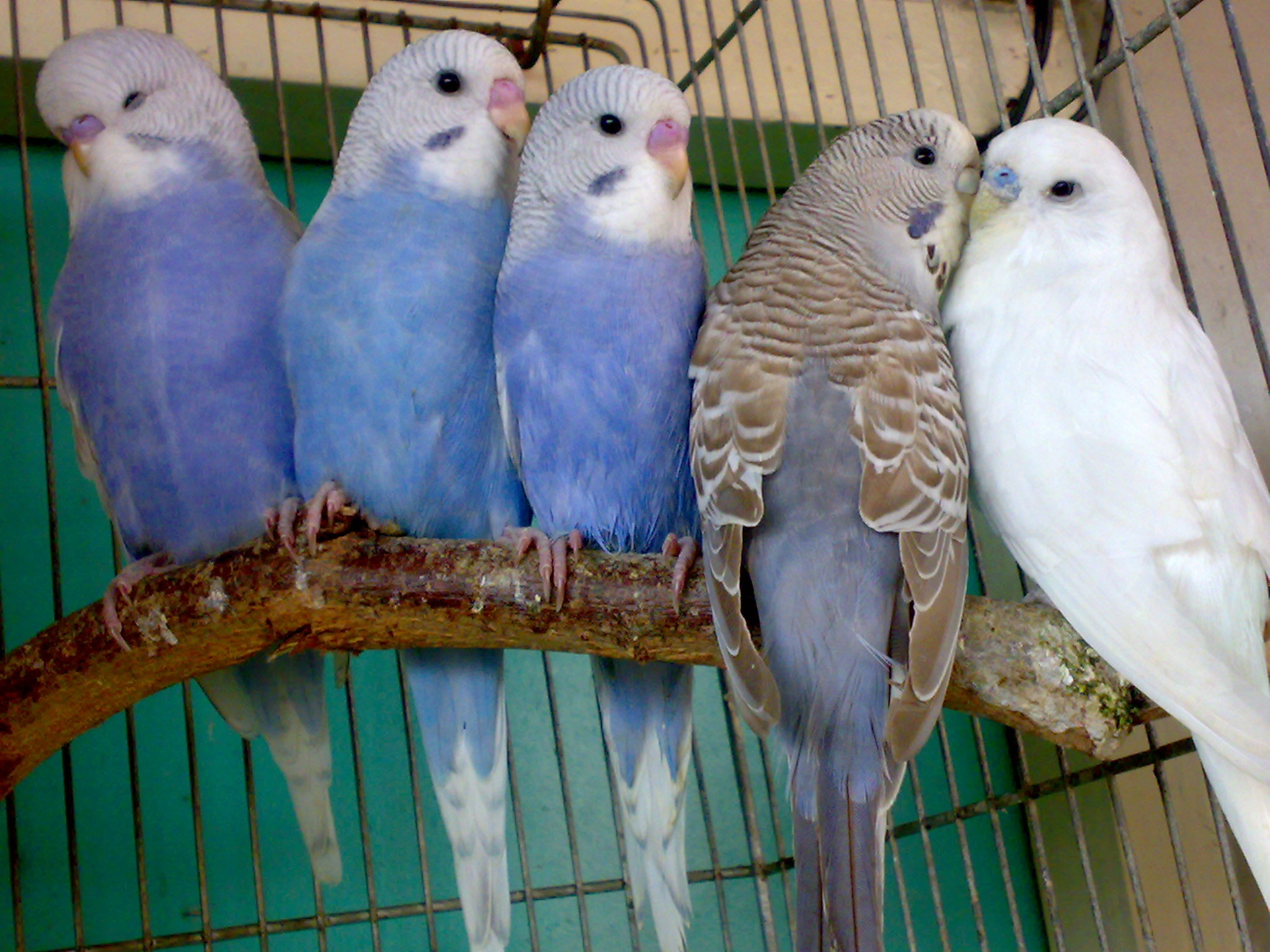 A family of five pet Budgerigars in a cage.